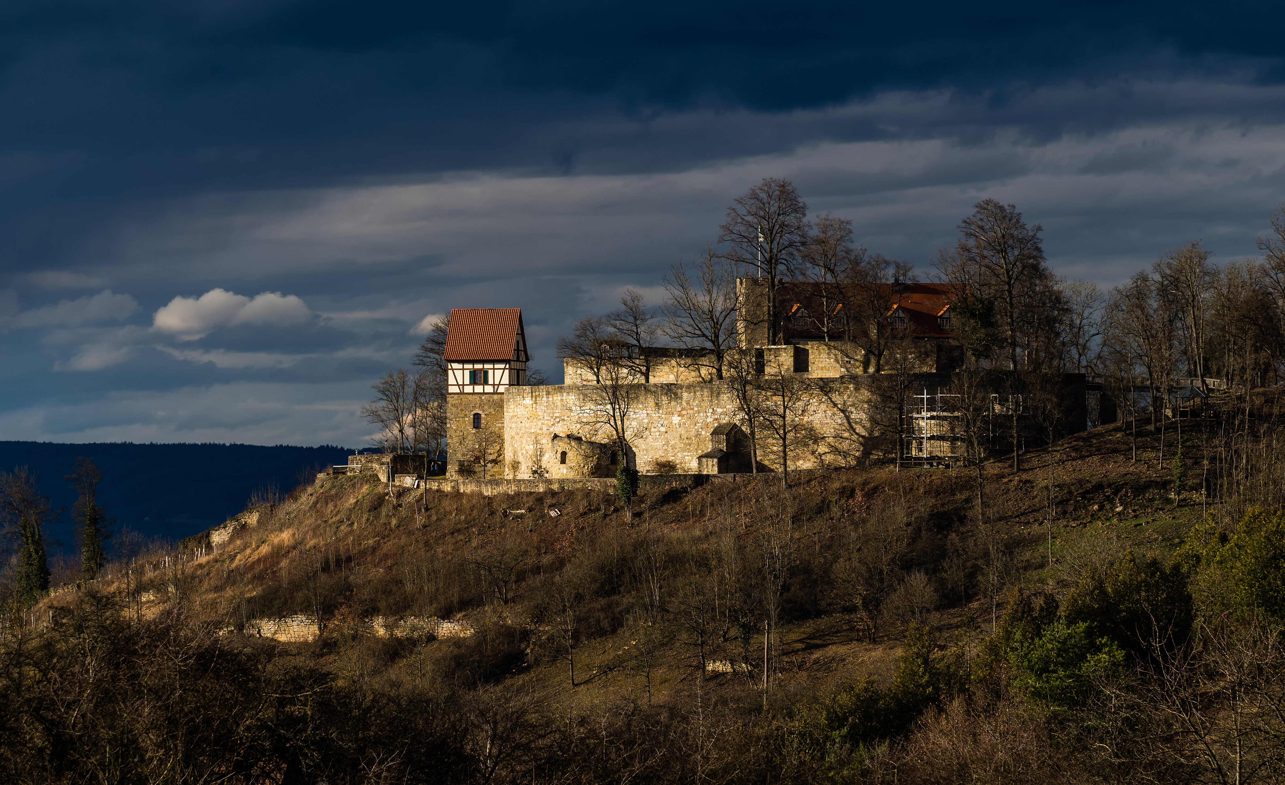 Castle Königsberg seen from the south